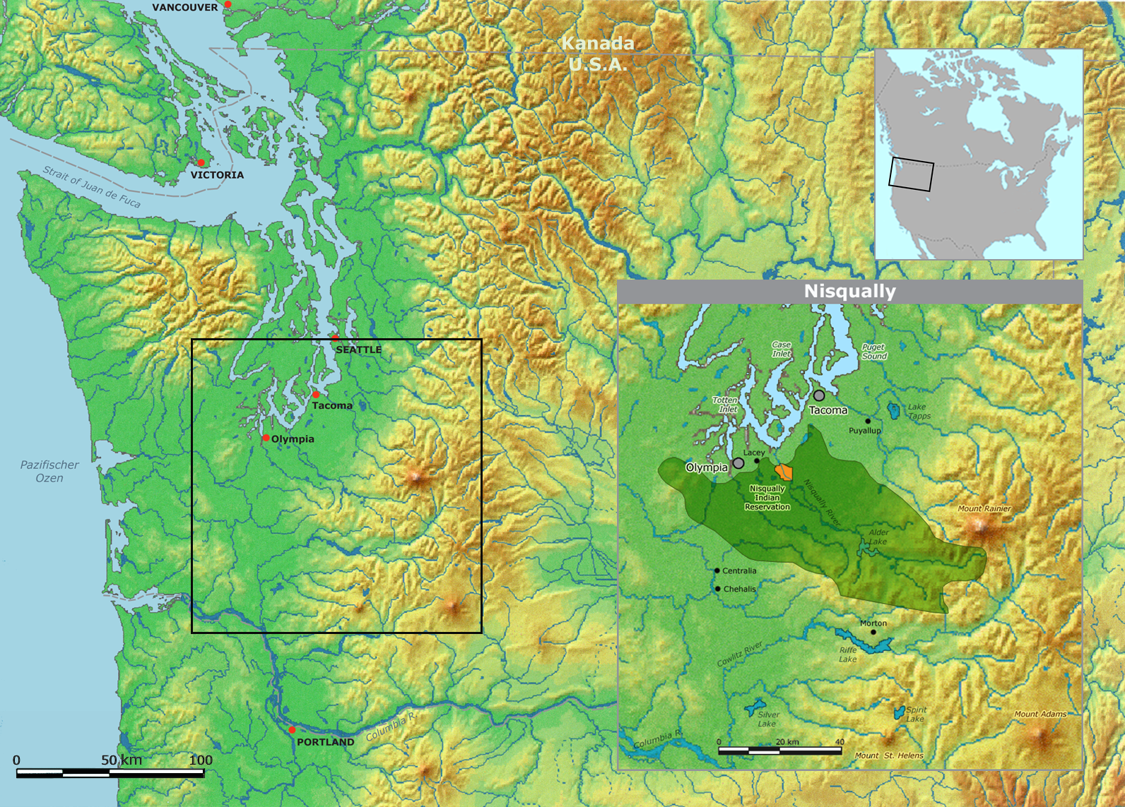 Map of Nisqually traditional tribal territory and reservation